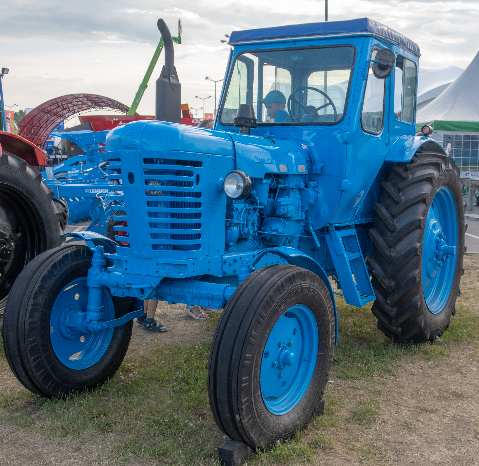 Belarus MTZ-50. Photo taken at Belagro-2019 exhibition (Minsk district, Belarus)